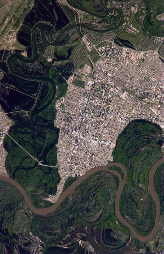 Astronaut photo of Oral, Kazakhstan (formerly Uralsk). The Ural River (brown) to the right of the city and the Chogan River is beneath.